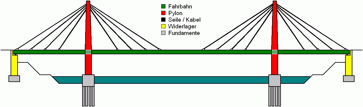 a pattern of an cable-stayed bridge, description in german